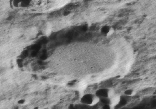 Oblique view of Strabo, facing west, on the moon.